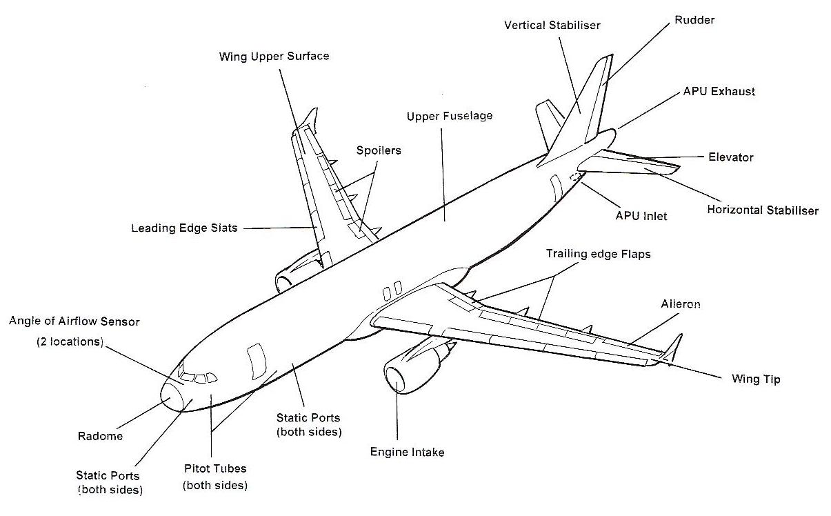 Parts of an Airbus A320 (shematic)